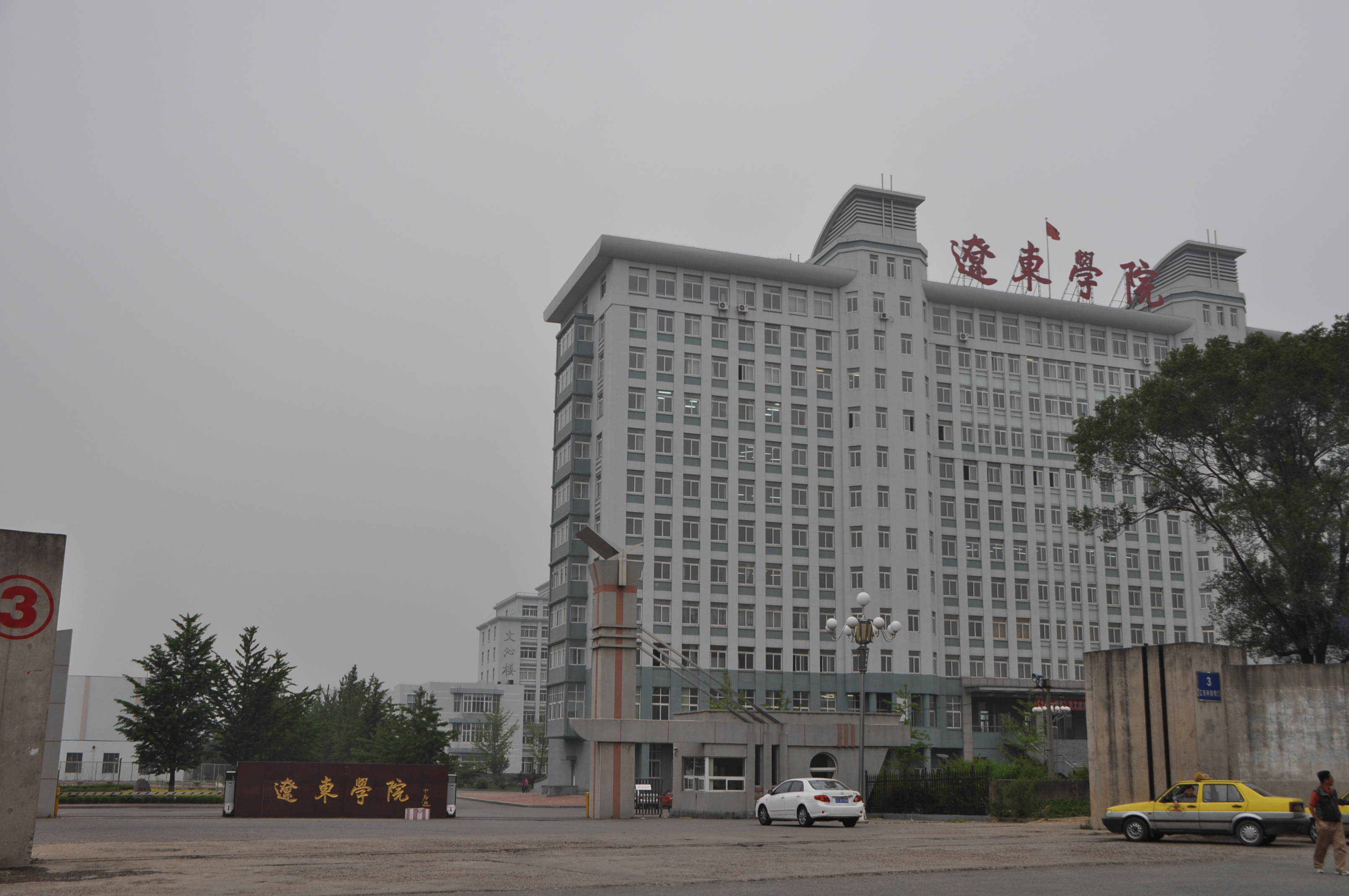 Eastern Liaoning University, China